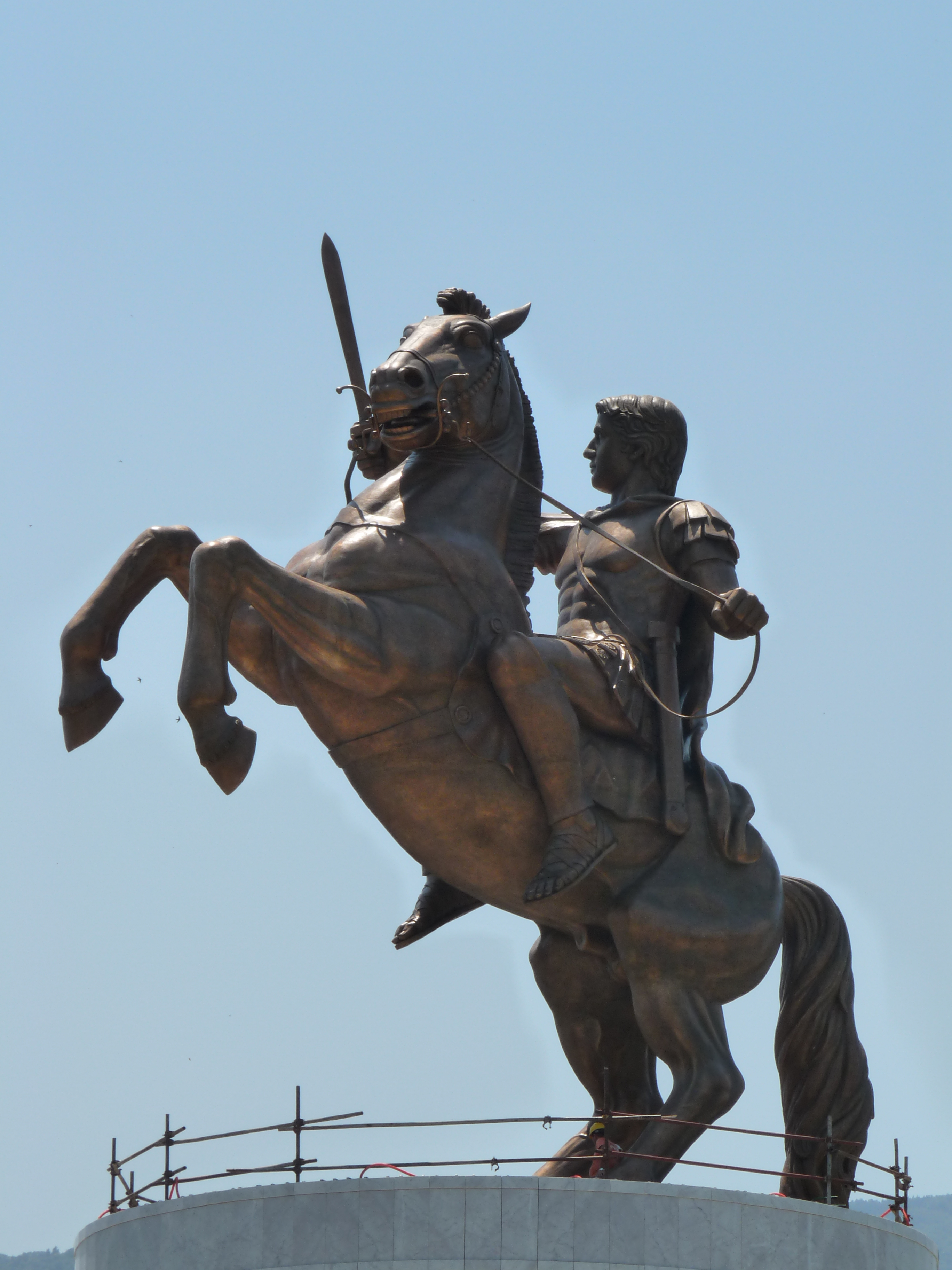 Warrior on Horseback (Skopje)